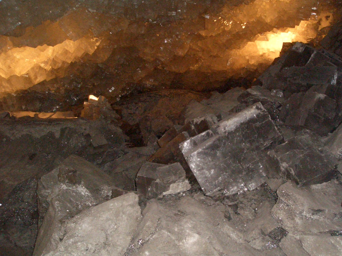 Sodium chloride crystals at the mine in Merkers, Germany